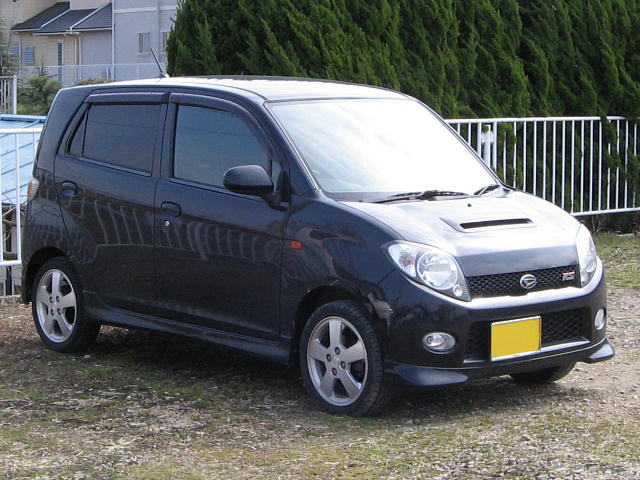 A 2001 Daihatsu Max.